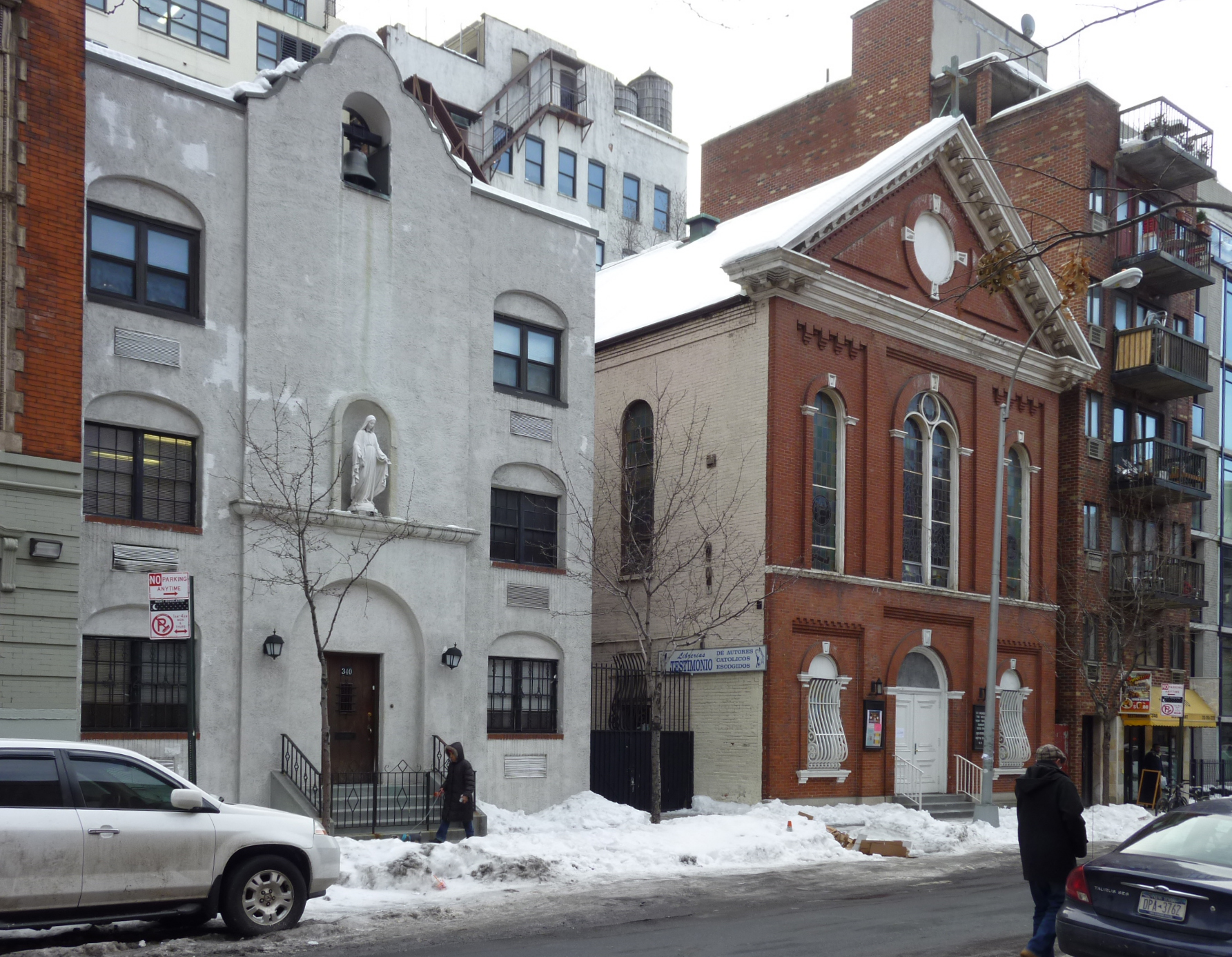 The Church of St. Benedict the Moor is a Roman Catholic parish church in the Roman Catholic Archdiocese of New York, located at 342 West 53rd Street, Manhattan, New York City. It was established in 1883 to serve the African-American community of the city staffed by Spanish friars of the Third Order of St. Francis (T.O.R.) from 1953. The parish was reduced to mission status, and is currently maintained by members of the new Lumen Christi congregation. A three-storey rectory at 338-342 West 53rd Street was built in 1965 to the designs of Joseph Mitchell of 355 West 54th Street for $220,000.